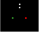 Navigation lights as described in the International Regulations for Preventing Collisions at Sea illustrating vessel approaching forward.